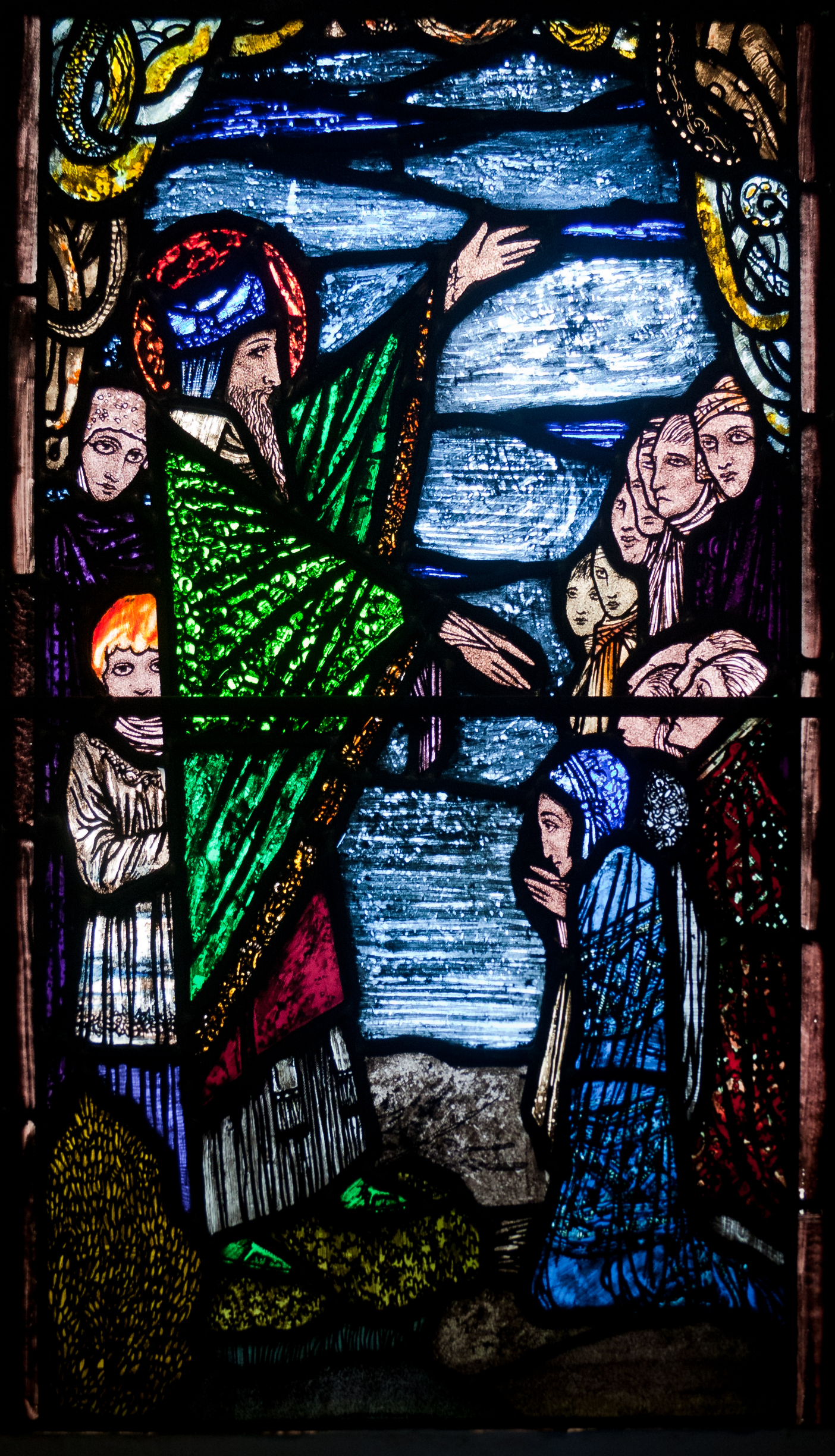 Bottom feature of the right light of the fifth window in the south aisle, depicting St Patrick preaching to his disciples including Benignus as a young boy (left side). This stained glass window was created by Harry Clarke in 1925. Harry Clarke (1889–1931) Alternative names Henry Patrick ClarkeDescriptionBritish artistDate of birth/death 17 March 1889 6 January 1931 Location of birth/death Dublin ChurAuthority control : Q981851 VIAF: 64809213 ISNI: 0000 0000 7729 3084 ULAN: 500005071 LCCN: n80127749 NLA: 35207551 WorldCat creator QS:P170,Q981851